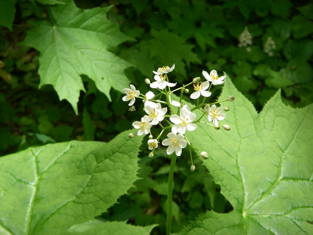 Umbrella-leaf flower in the Smokies.